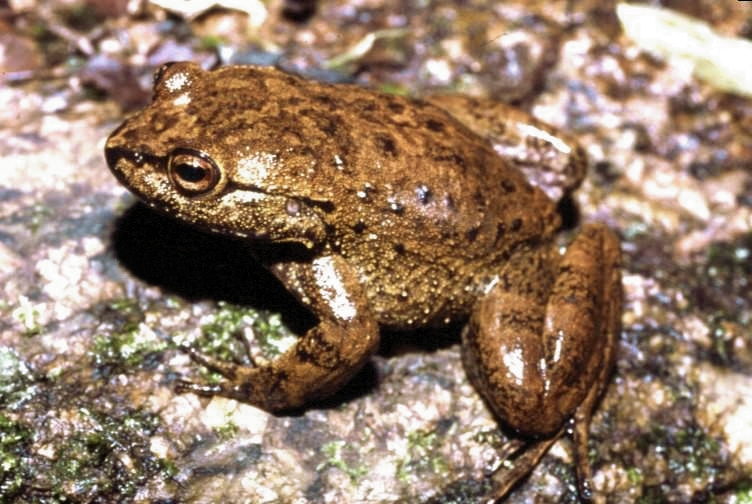 Megaelosia boticariana The original image included the text "©AAGiaretta"